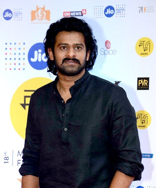 Actor Prabhas